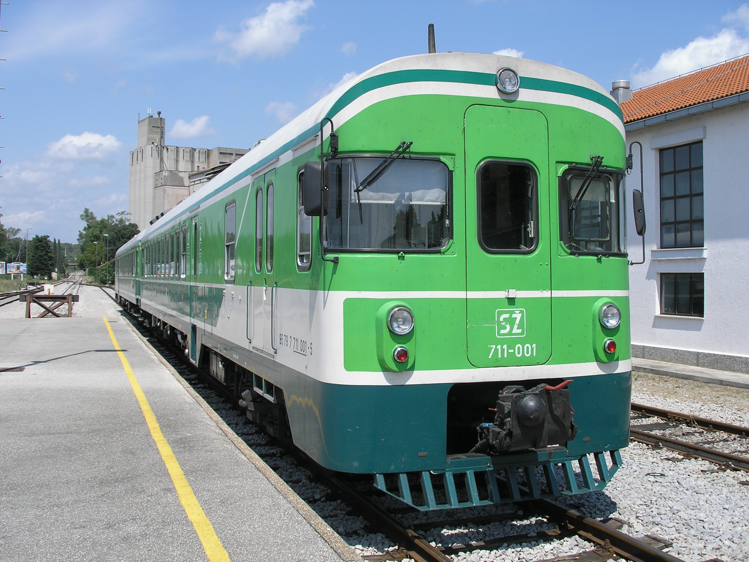 A Slovenian 711 series train